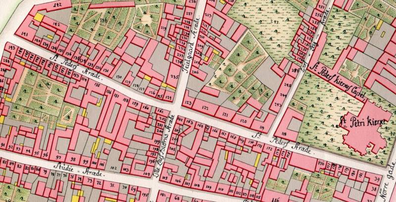 Detail from Gedde's map of Copenhagen showing the street Sankt Peders Stræde